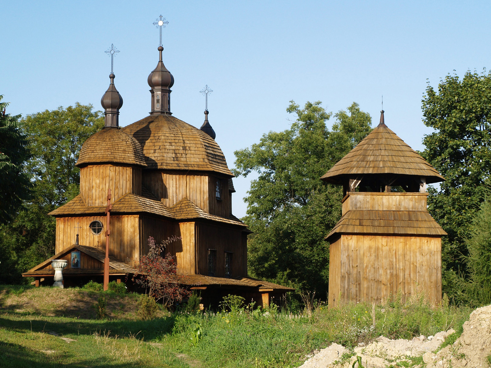 Greek-Catholic Church with bell tower in Open Air Village Museum in Lublin